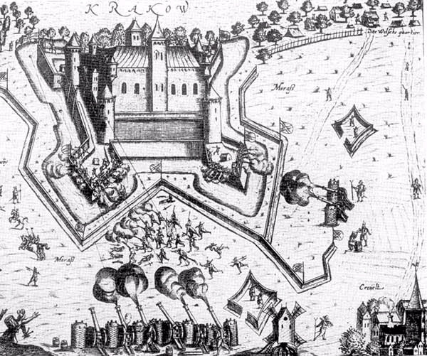 Siege of castle Krakau near Krefeld (Germany)